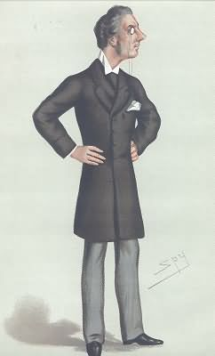 Caricature of Joseph Chamberlain M.P.. Caption read "our Joe".